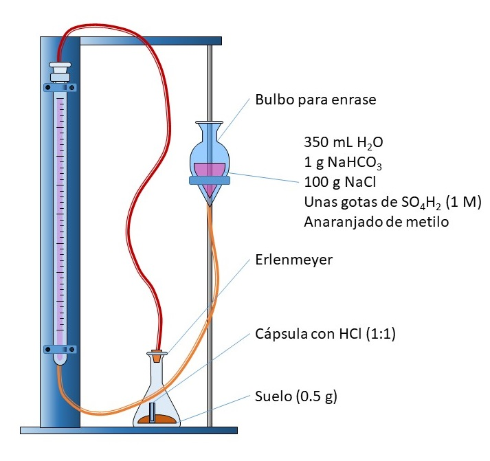 Bernard calcimeter for the determination of carbonates in soils.